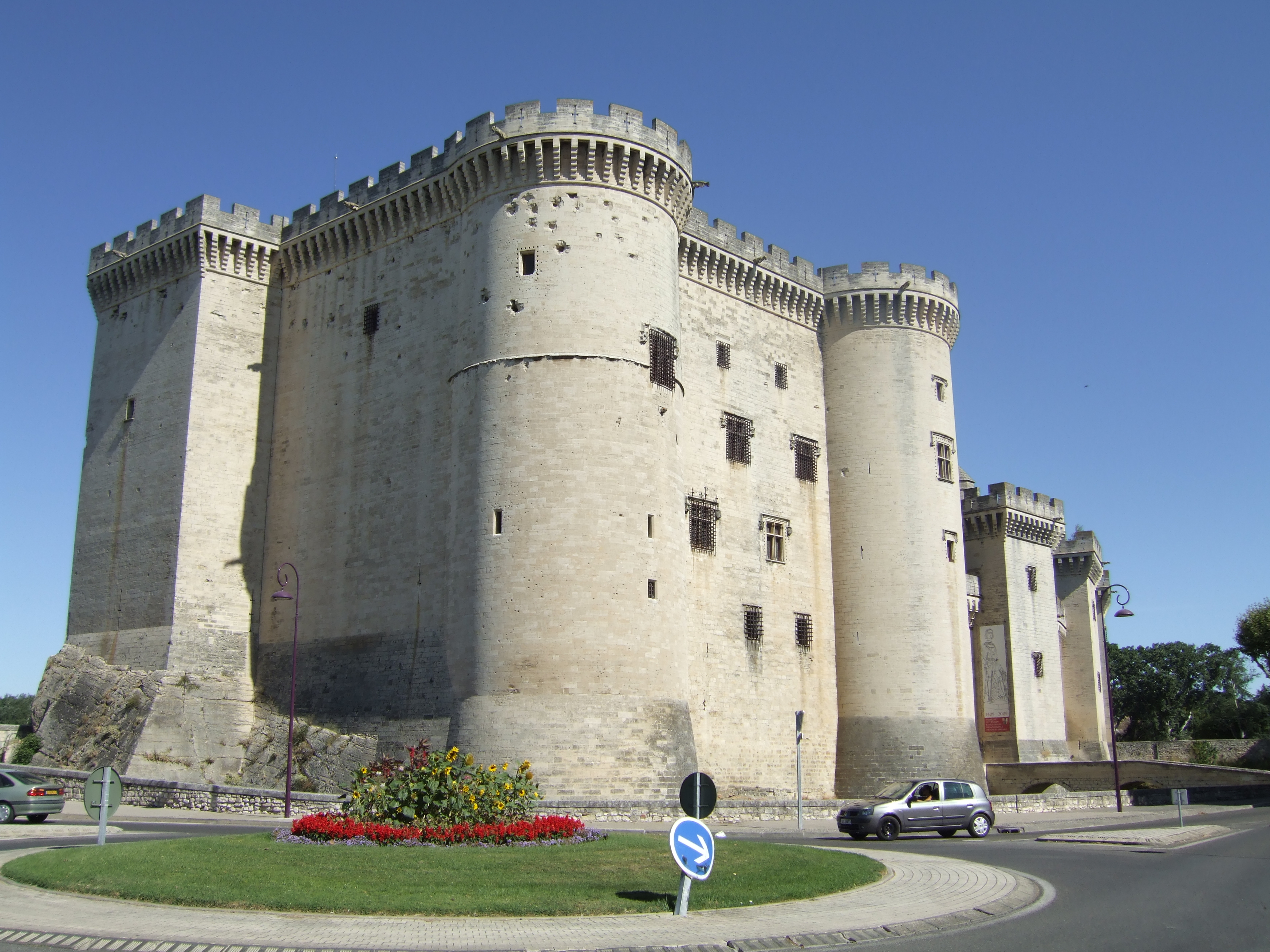 Castle of King René at Tarascon en Provence